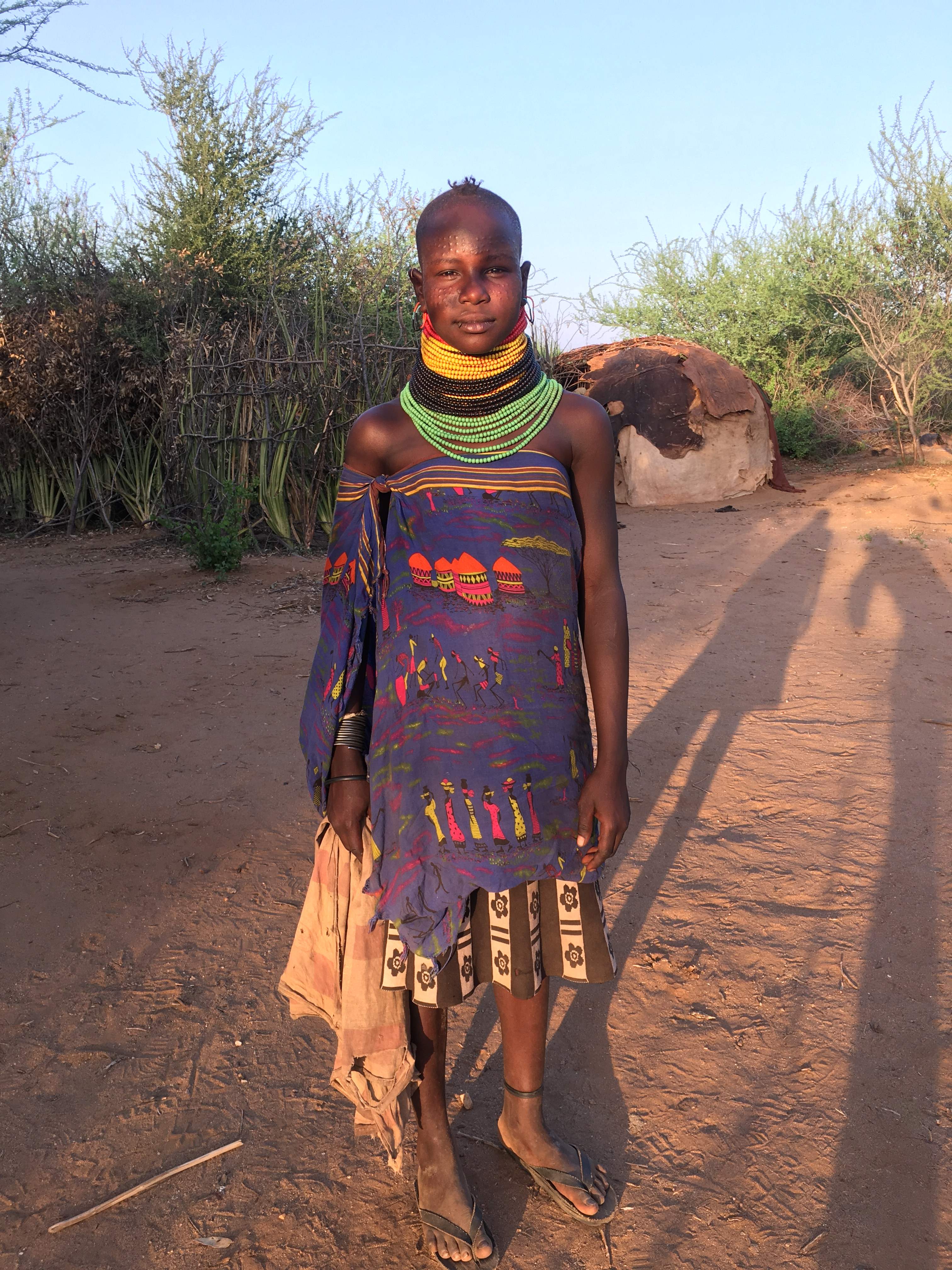 Young Turkana nomad girl ready to milk camels This is an image with the theme "Africa on the Move or Transport" from: Kenya